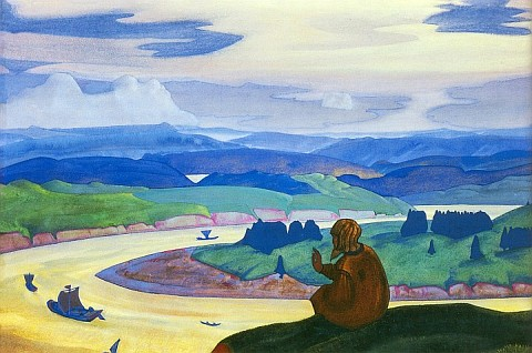 Nicholas Roerich "Procopius the Righteous Praying"